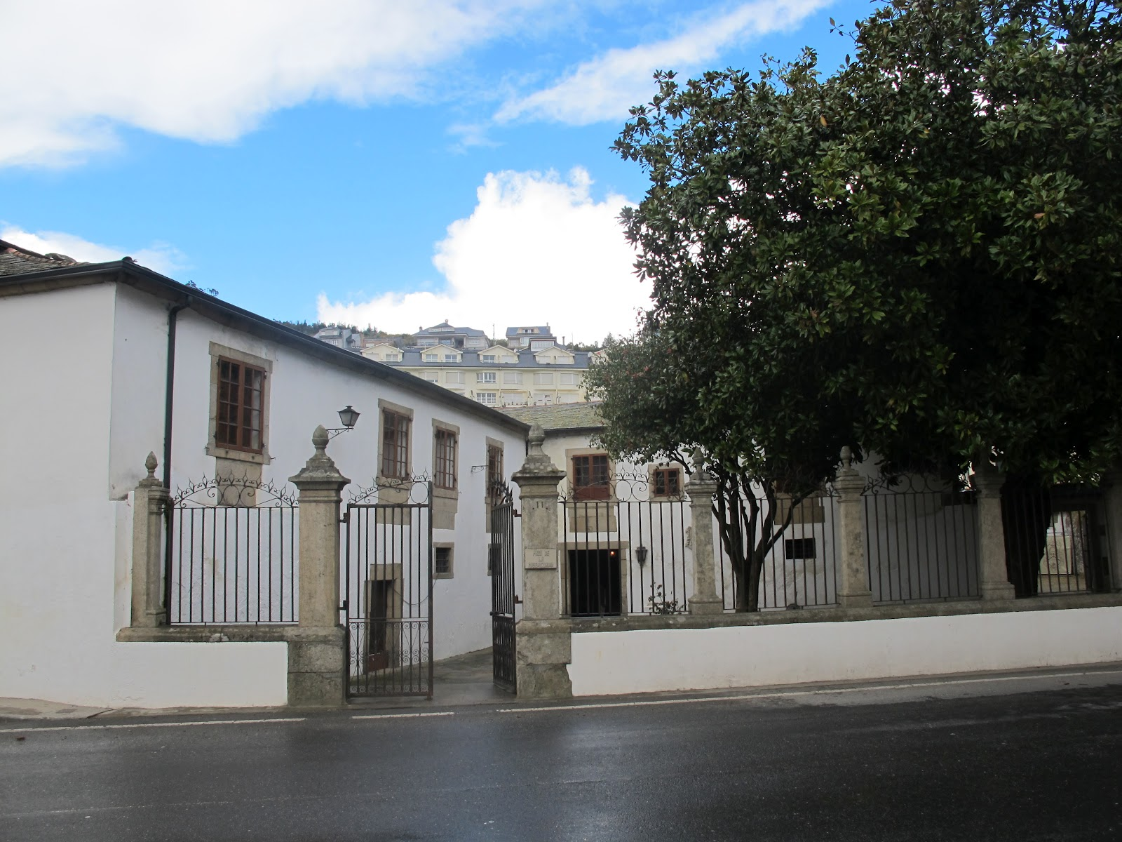 Palace and Church Misericordia Vivero